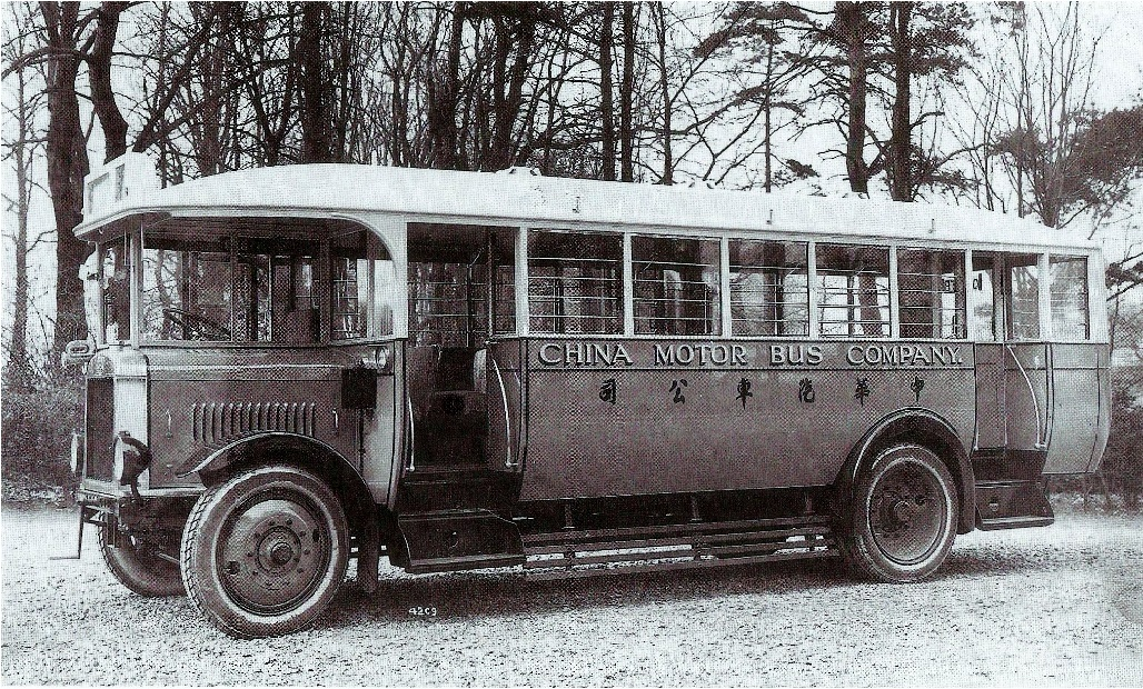 A Leyland "Lion" Model PLSC1 bus of China Motor Bus